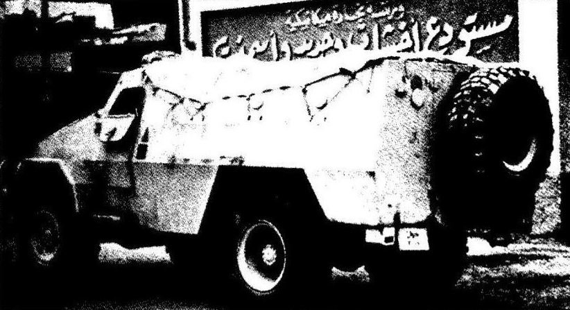 Walid armored personnel carrier, Central Intelligence Agency file photo.